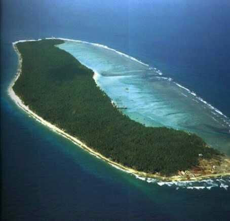 Northern edge of Kiltan seen from on a chopper , Kulikkara and Heliport also seen.